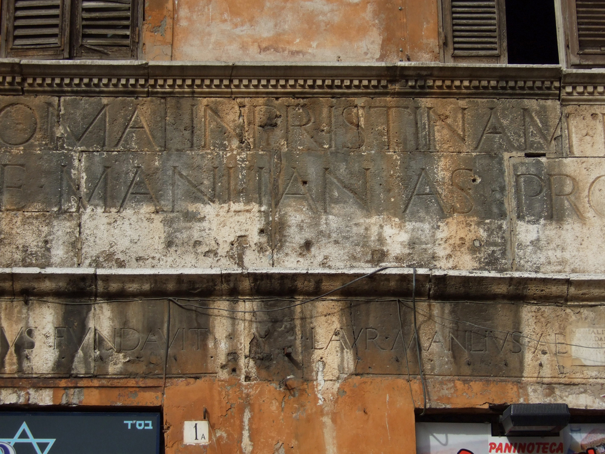 the house of Lorenzo Manilio (1468): see the facade that imitates well an ancient inscription. Rome, Italy